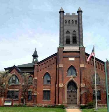 Outside of the Sanctuary of the First United Church of Christ in 1997